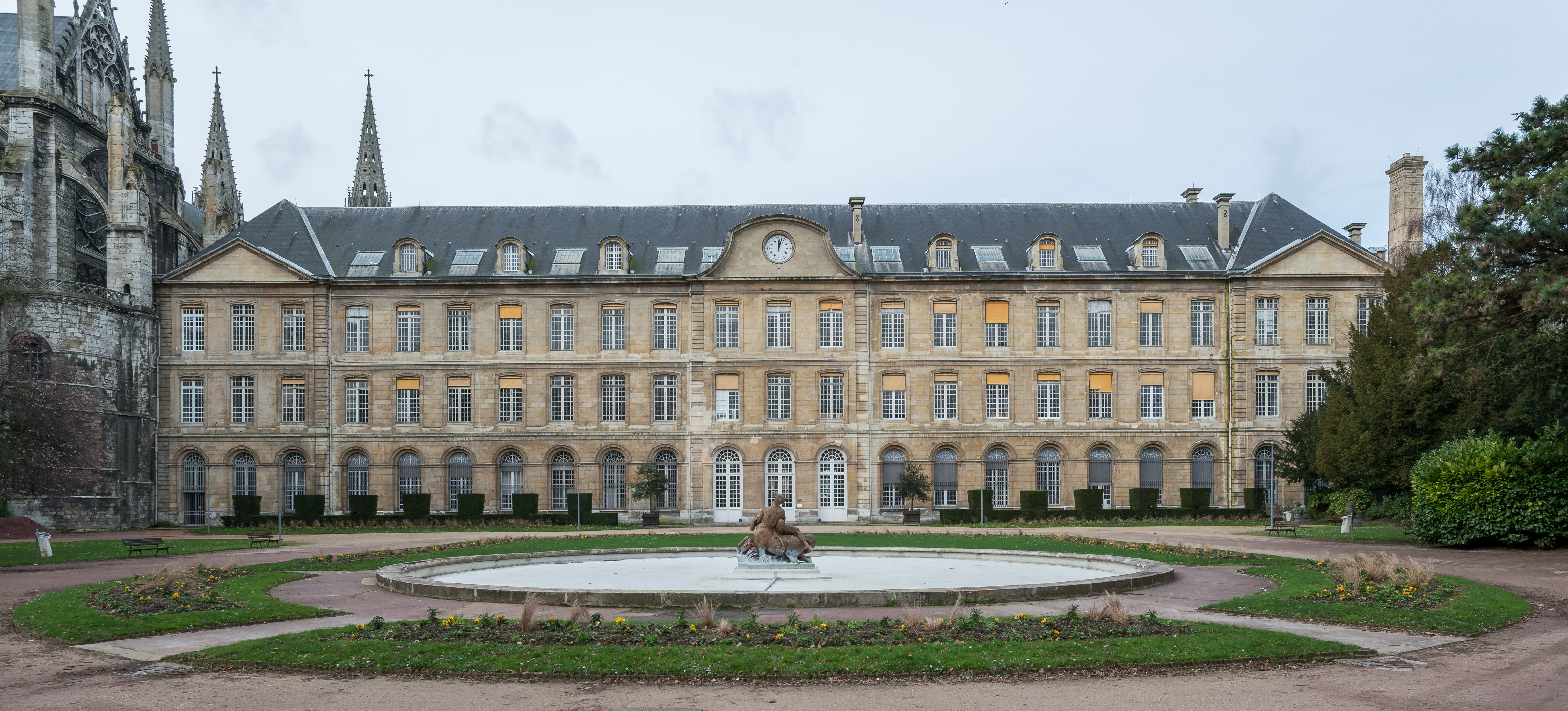 The "Hôtel de Ville" of Rouen as seen from west